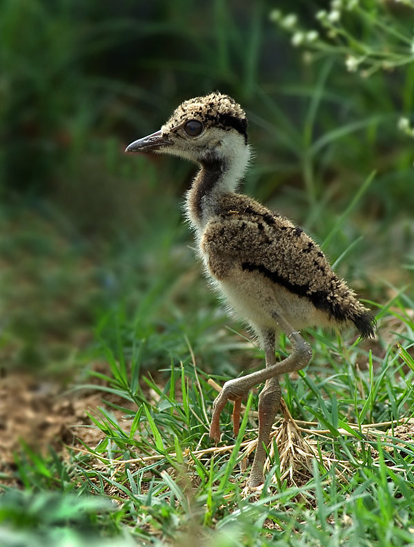 Red wattled lapwing (Vanellus indicus) chick, taken today at outskirts of NewDelhi. They are usually very shy&well camouflaged ..I am lucky today ,I got them there morning walk :). Taken from car as hide. Exif:D2x,420MM,1/80sec, ,f/7.1,ISO:100